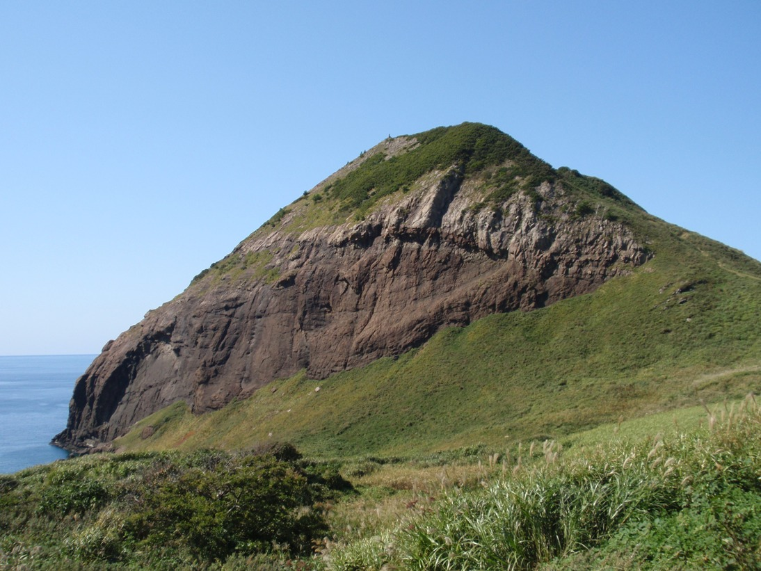 Ohno Turtle Rock in Sado